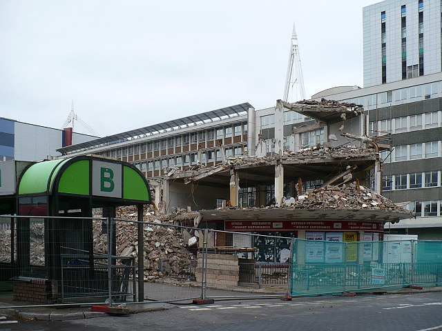 Demolition at Cardiff central bus station, Cardiff, Wales